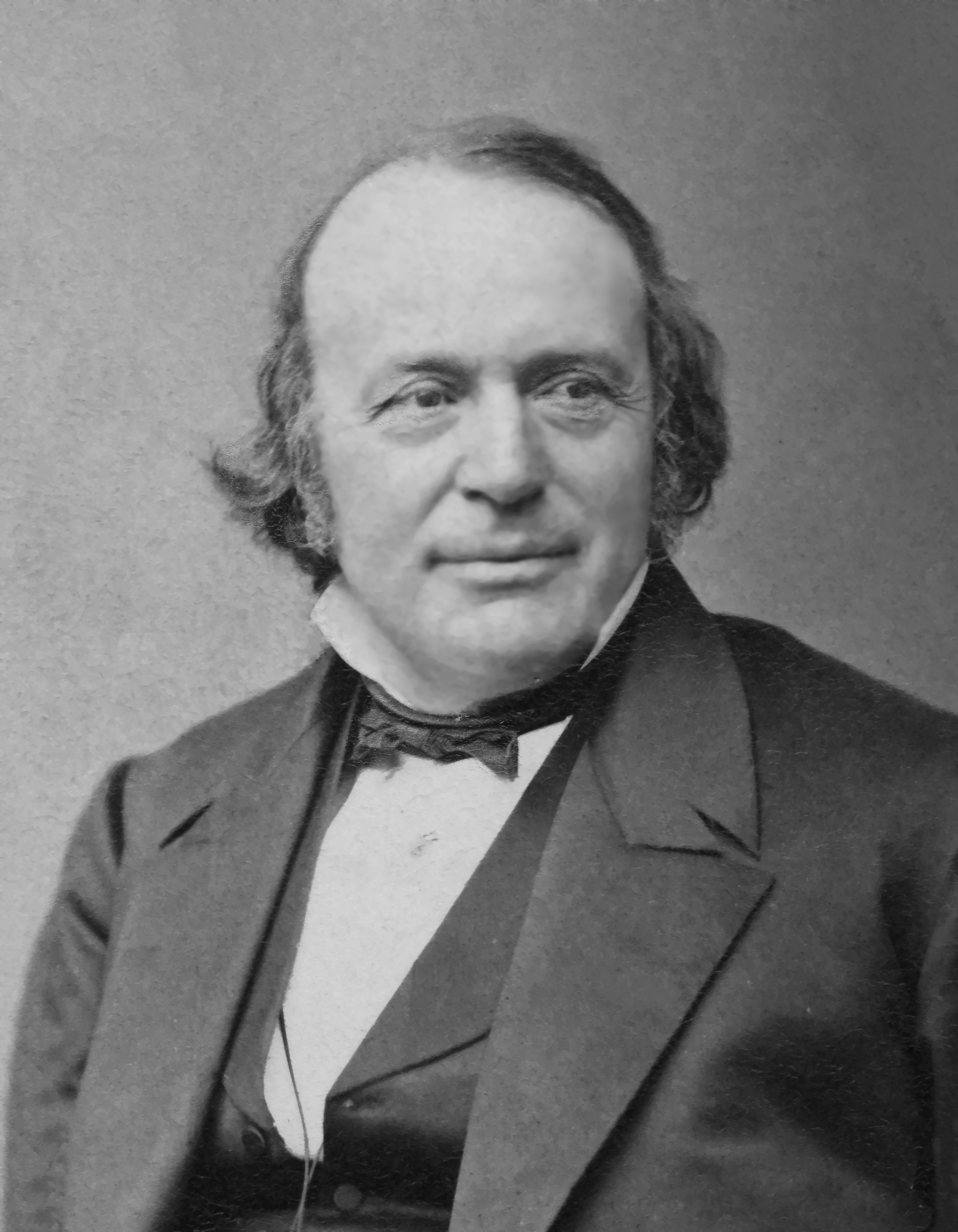 Louis Agassiz (1807-1873), Carte de Visite